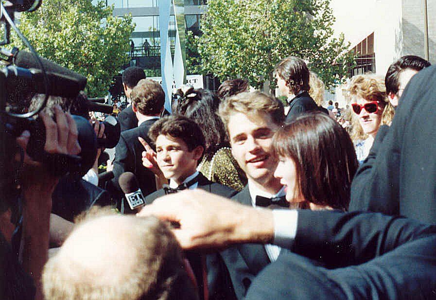 Fred Savage, Jason Priestley and Shannon Doherty on the red carpet for the 43rd Annual Emmy Awards, 8/25/91